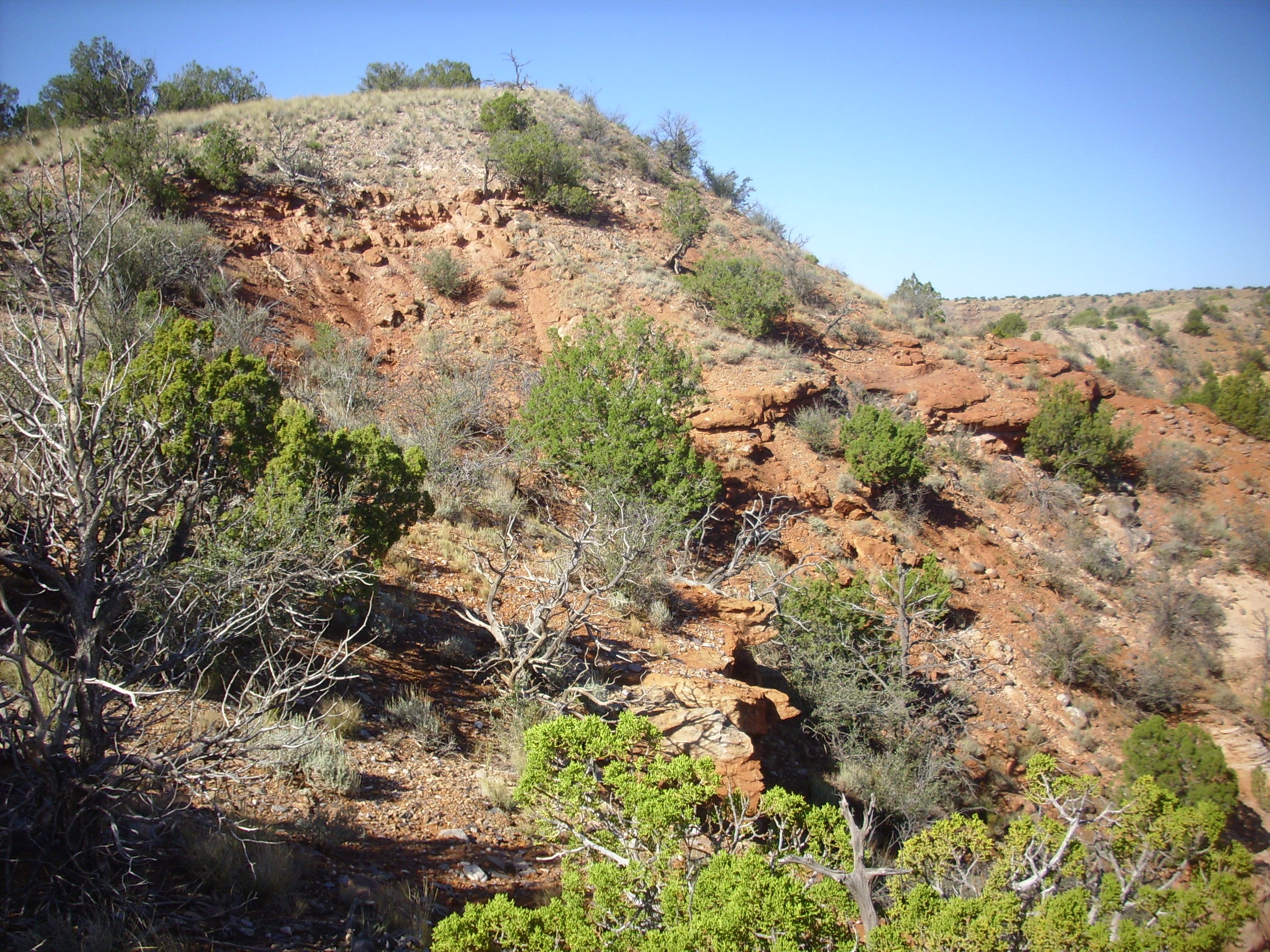 This iimage shows red beds of the Eocene El Rito Formation east of Arroyo del Cobre, nothern New Mexico.